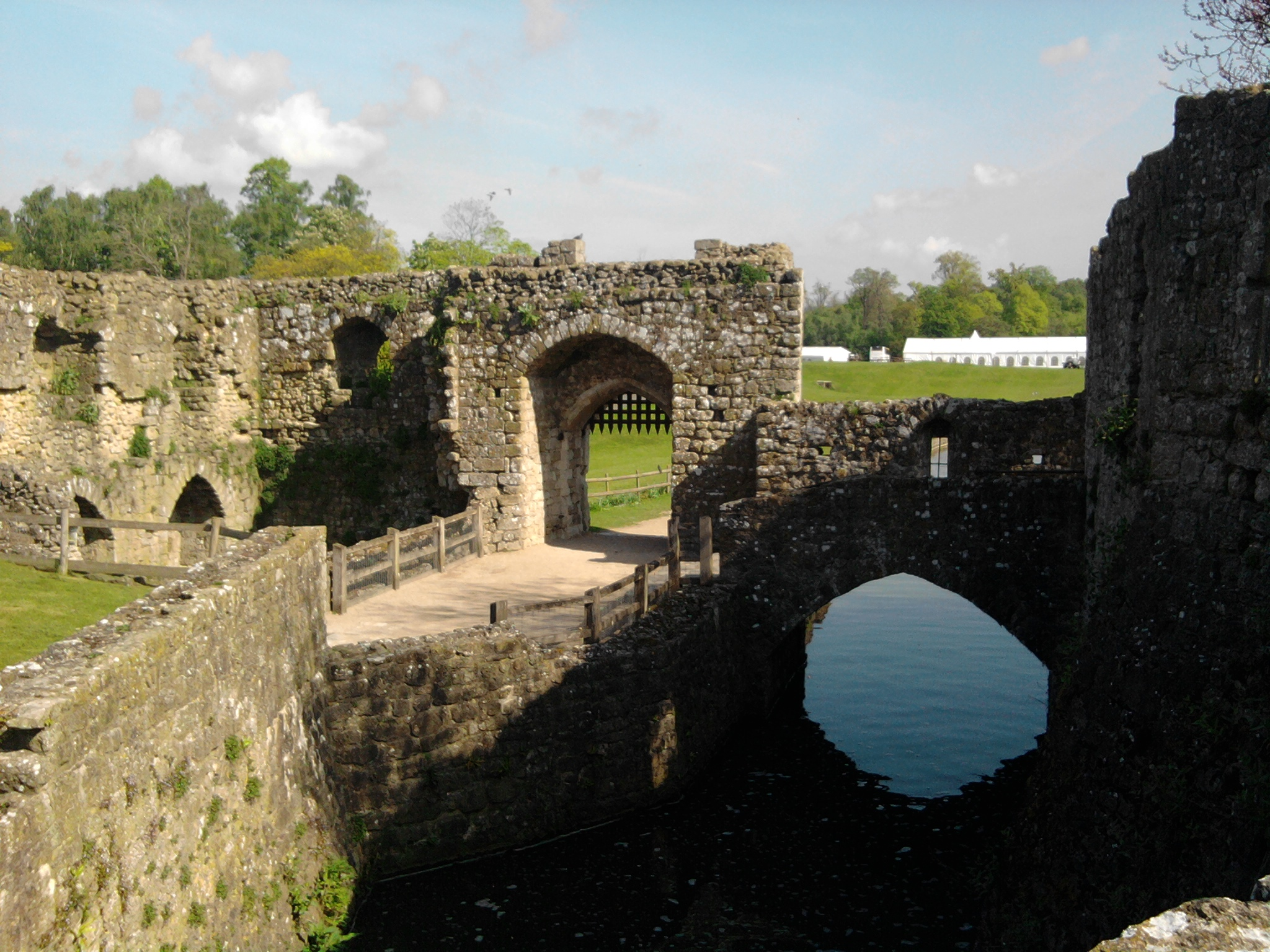 Leeds Castle moat, portcullis and mill